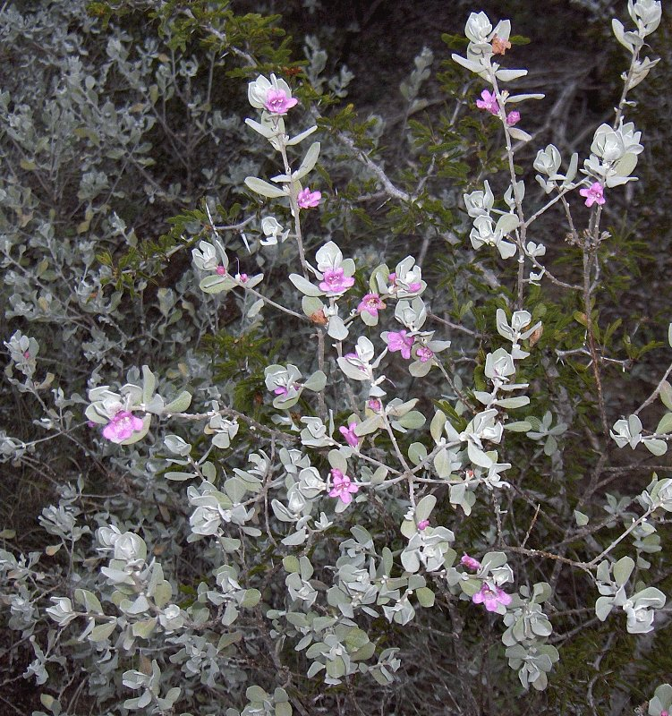 Texas Silverleaf (Leucophyllum frutescens)